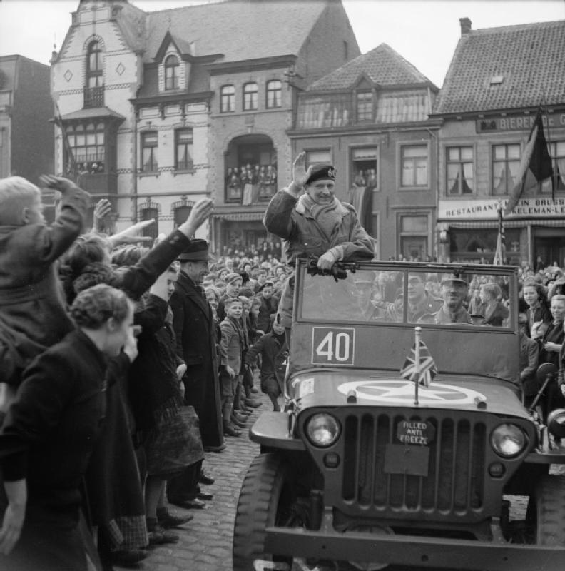 The British Army in North-west Europe 1944-45 Field Marshal Montgomery acknowledges the cheers of Belgian civilians during a tour of 5th Division in and around Ghent, 20 March 1945.